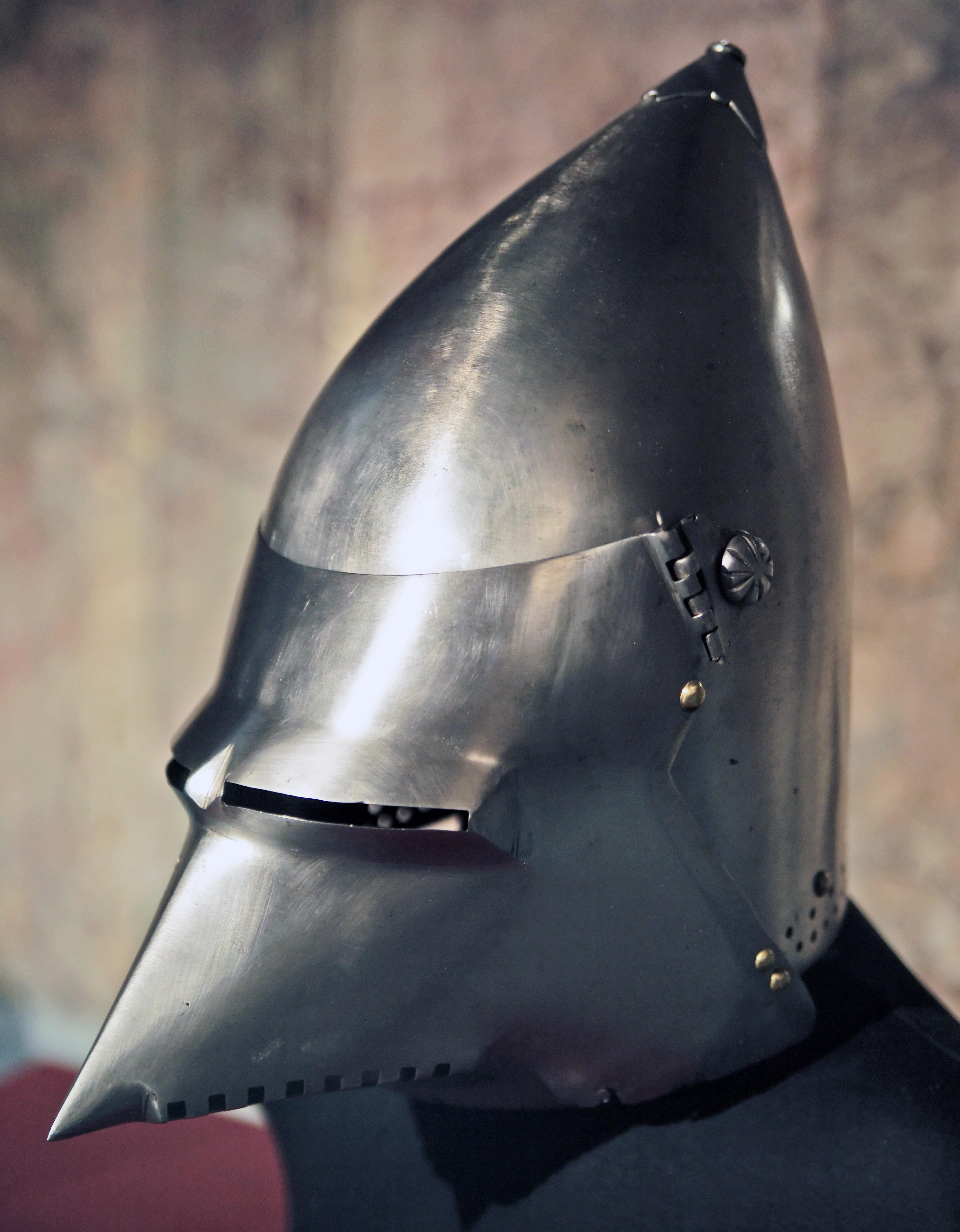 Bascinet of Ernst of Austria (1377–1424).